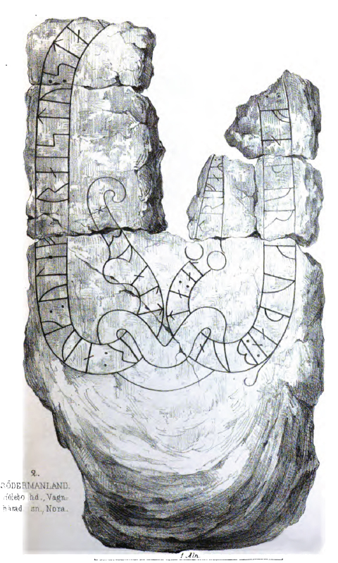 The runestone Sö 31. The inscription reads [hrualtr : auk : ulef] raistu [: stai]... ...a at : þuri [: faþur kuþan : bunta : altr]ifaR [:]. In English "Hróaldr and Óleif/Óleifr raised this stone in memory of Þórir, (their) good father, Aldríf's husbandman."